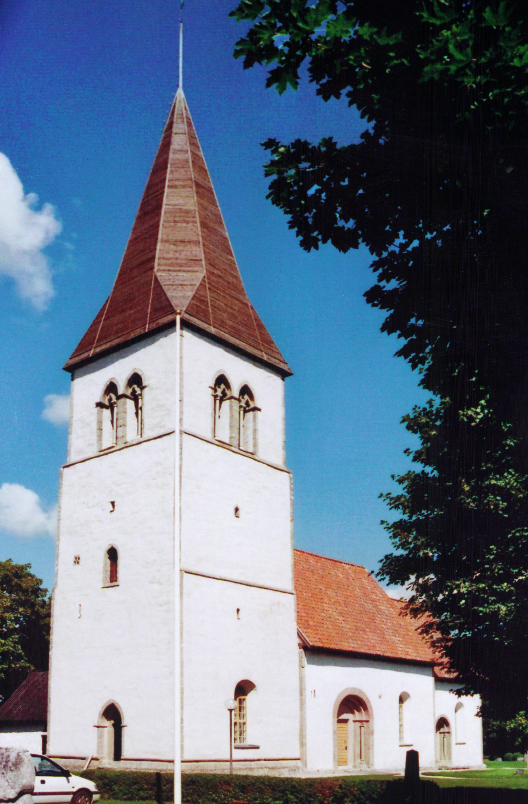 Church of Eke, southern Gotland, Sweden